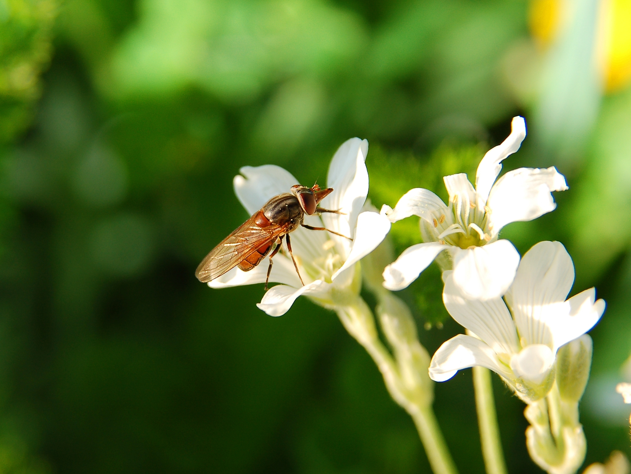 Rhingia campestris in Belgium (Hamois).